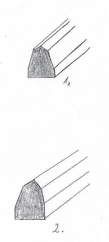 Types of the Mune at japanese swords